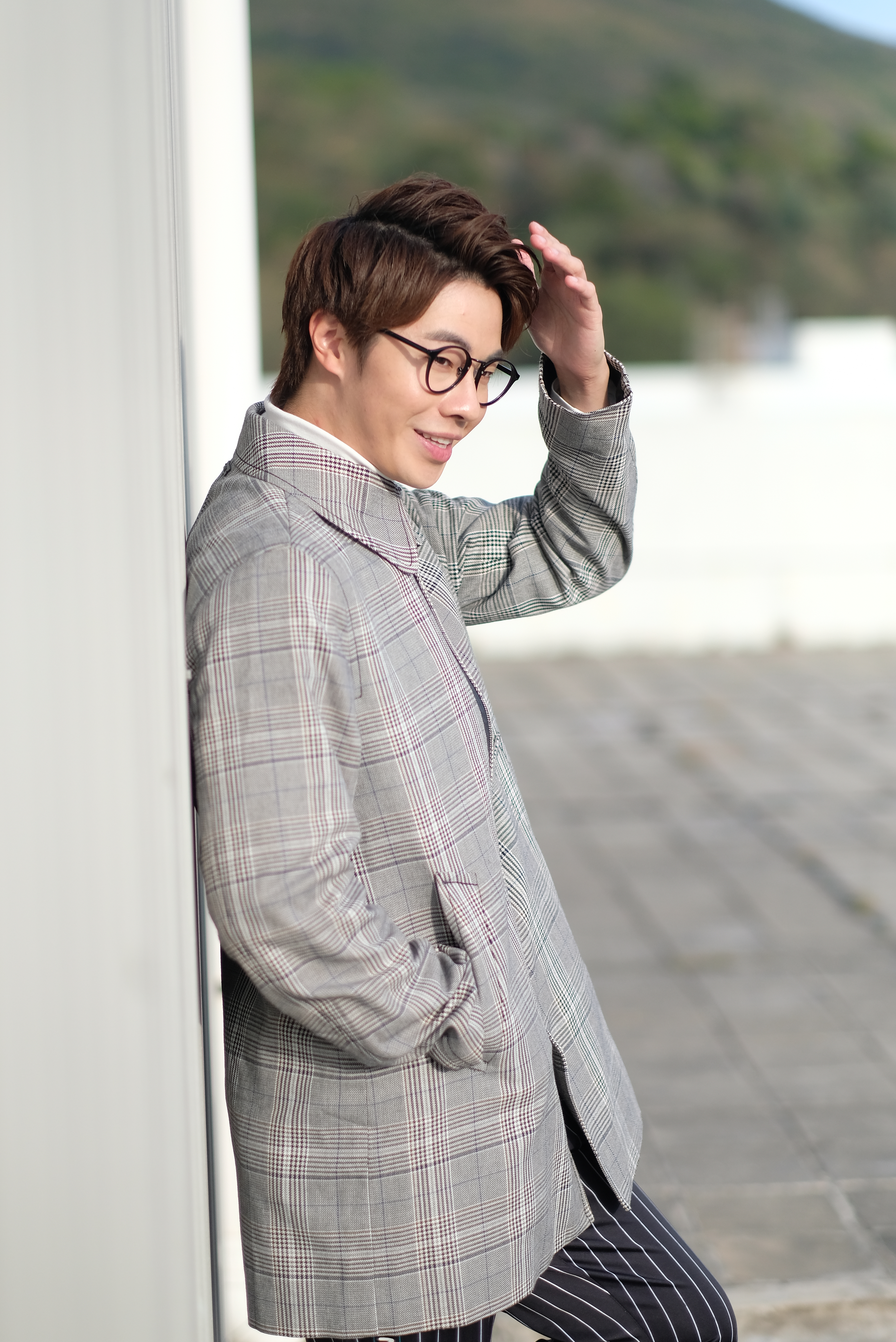 A KOL of the TVB J2 programme, "Young And Restless"